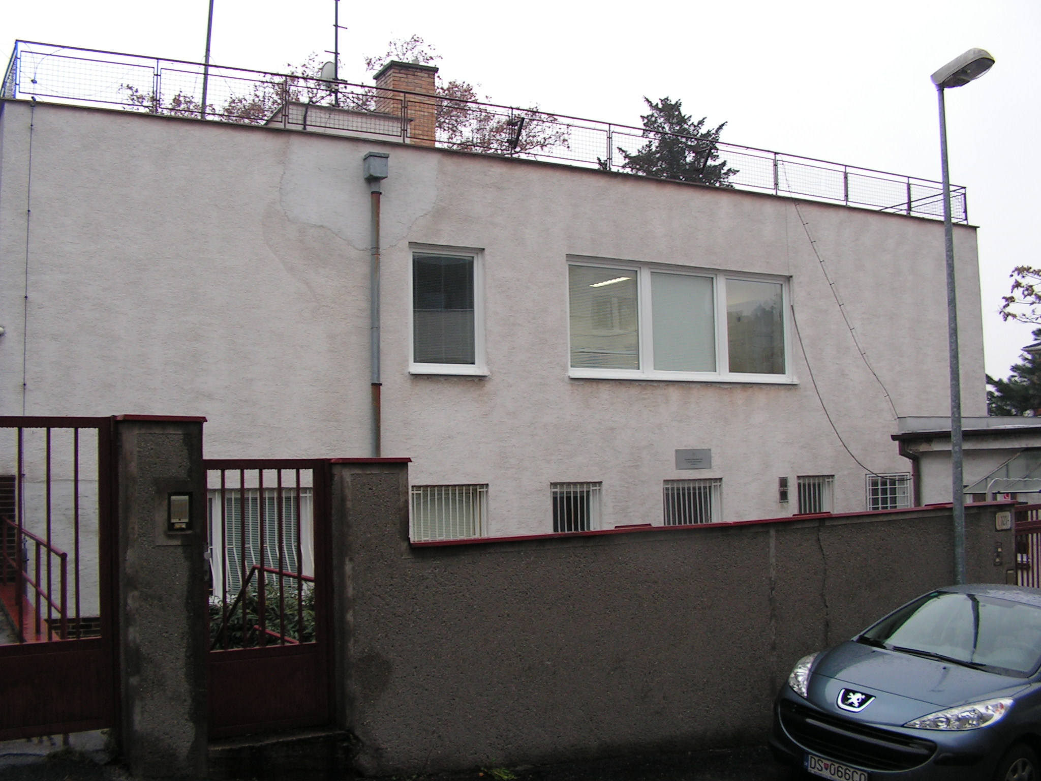 Vila Pfeffer, Novosvetská 8, Bratislava. Arch. Fridrich Weinwurm, 1935. View from the street.